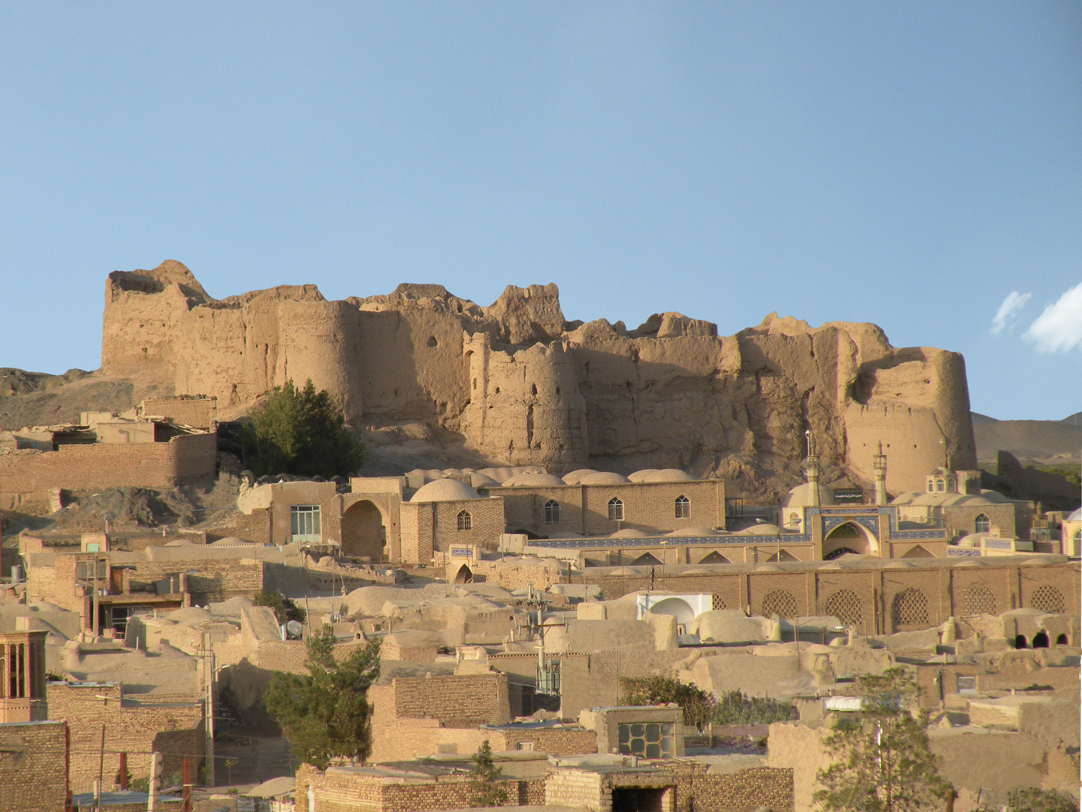 Mohhamadieh citadel